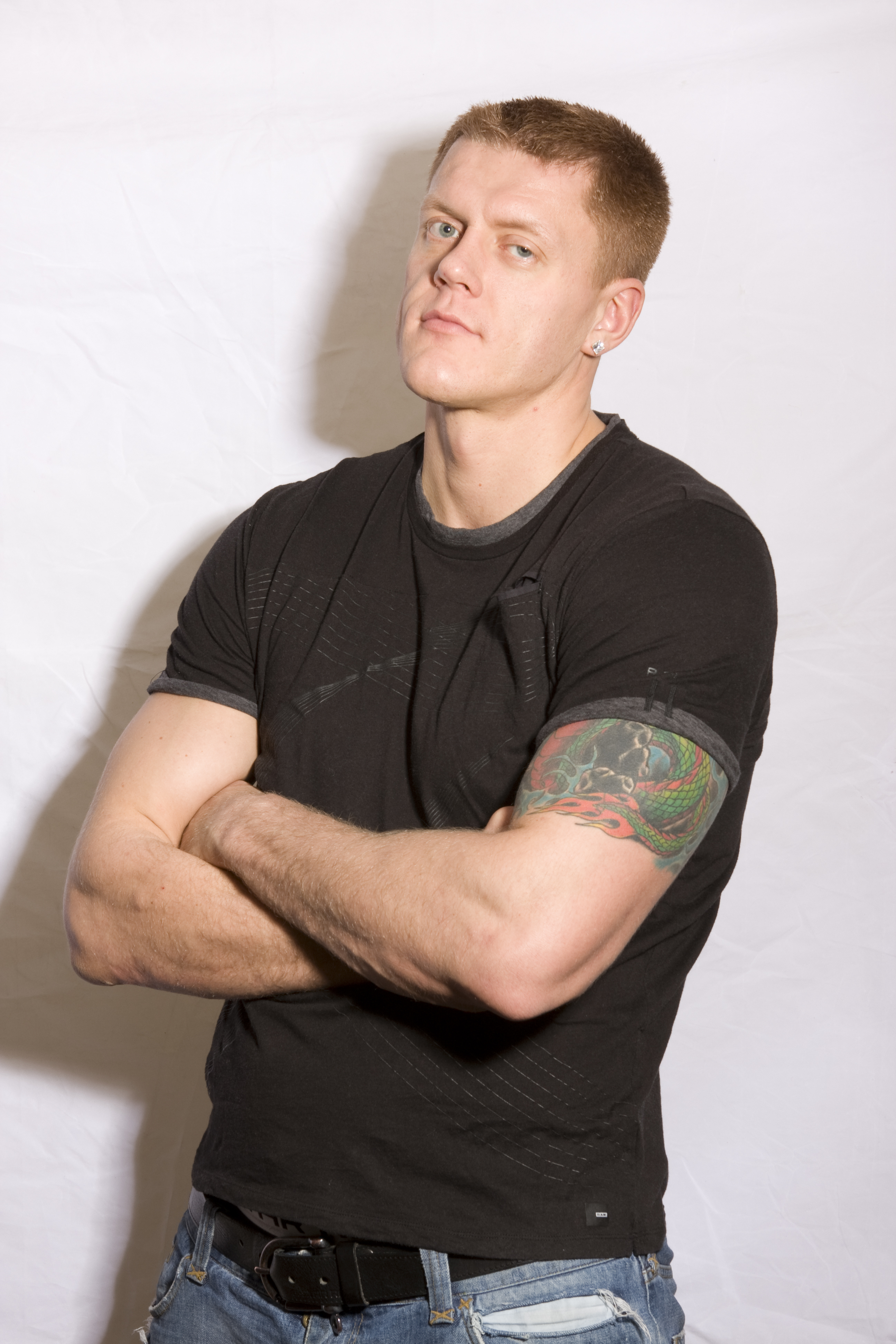 Kaspars Kambala